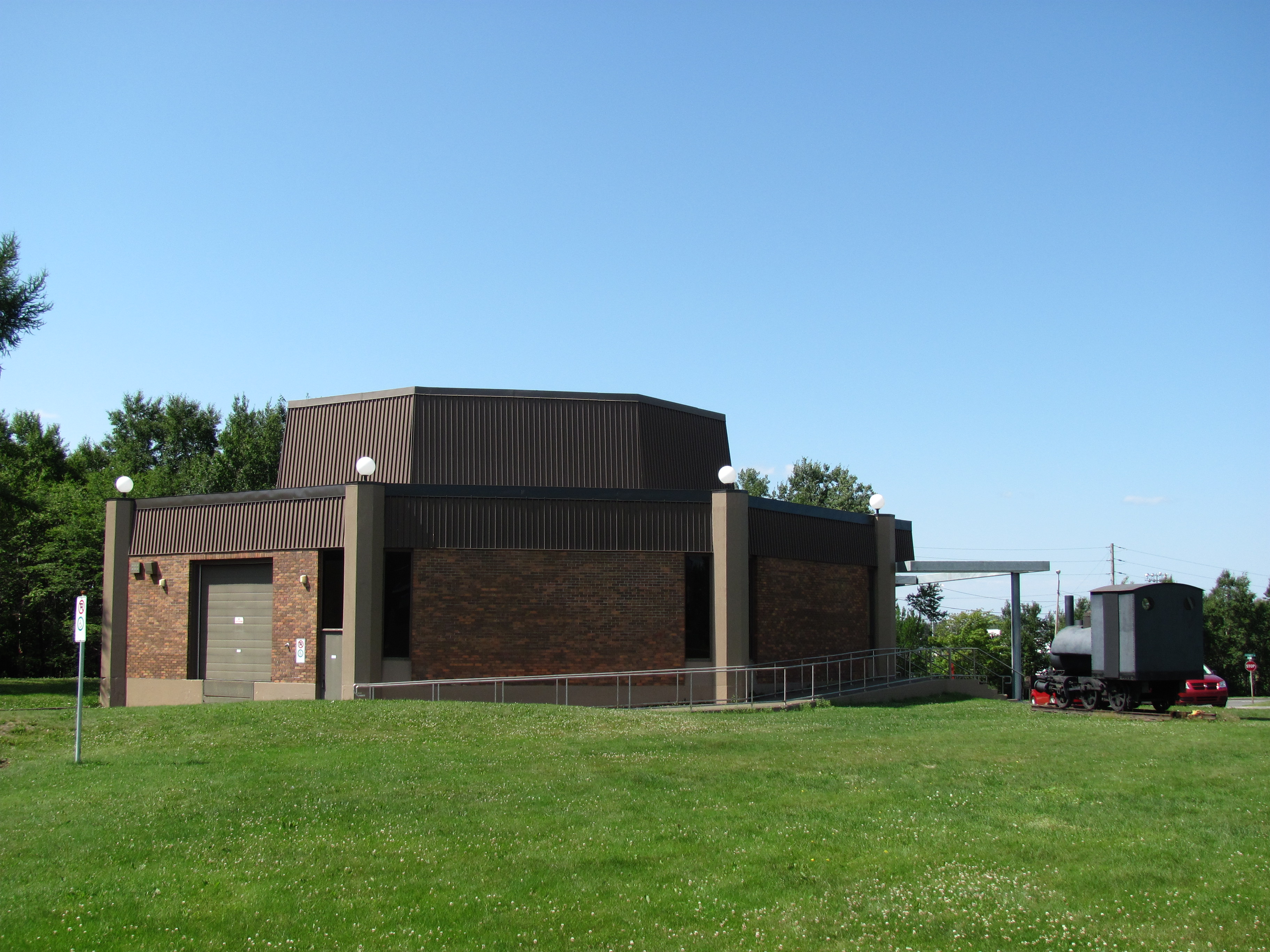 Mary March Provincial Museum, Grand Falls-Windsor, Newfoundland and Labrador